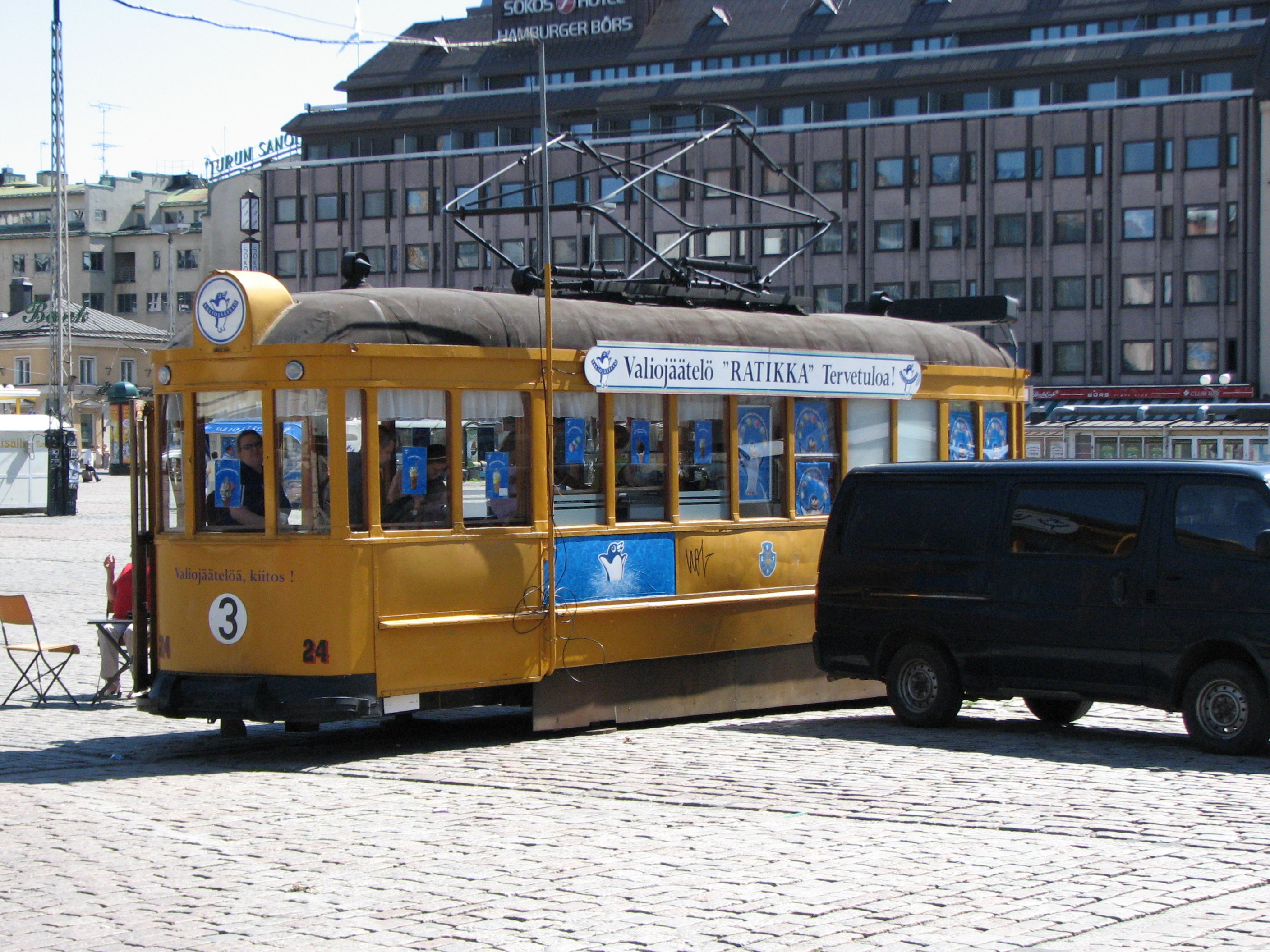 The ice cream tram at Turku market square in Turku, Finland.